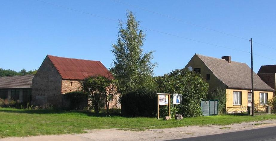 Building Dorfstraße (german for villagestreet ) No. 14 in Gömnigk. The village Gömnigk is a part of the town Brück in the district Potsdam Mittelmark, state Brandenburg, Germany, at the border to the natural preserve Naturpark Hoher Fläming.